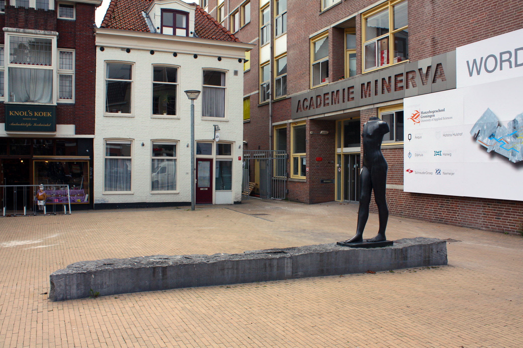 "Step" by Peter Stut and Eja Siepman van den Berg in Groningen, the Netherlands